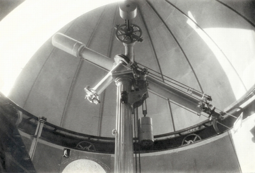 Original setting of the astronomical observatory in Regensburg in the year 1905. Refracting telescope produced by Reinfelder and dome produced by Hayde.